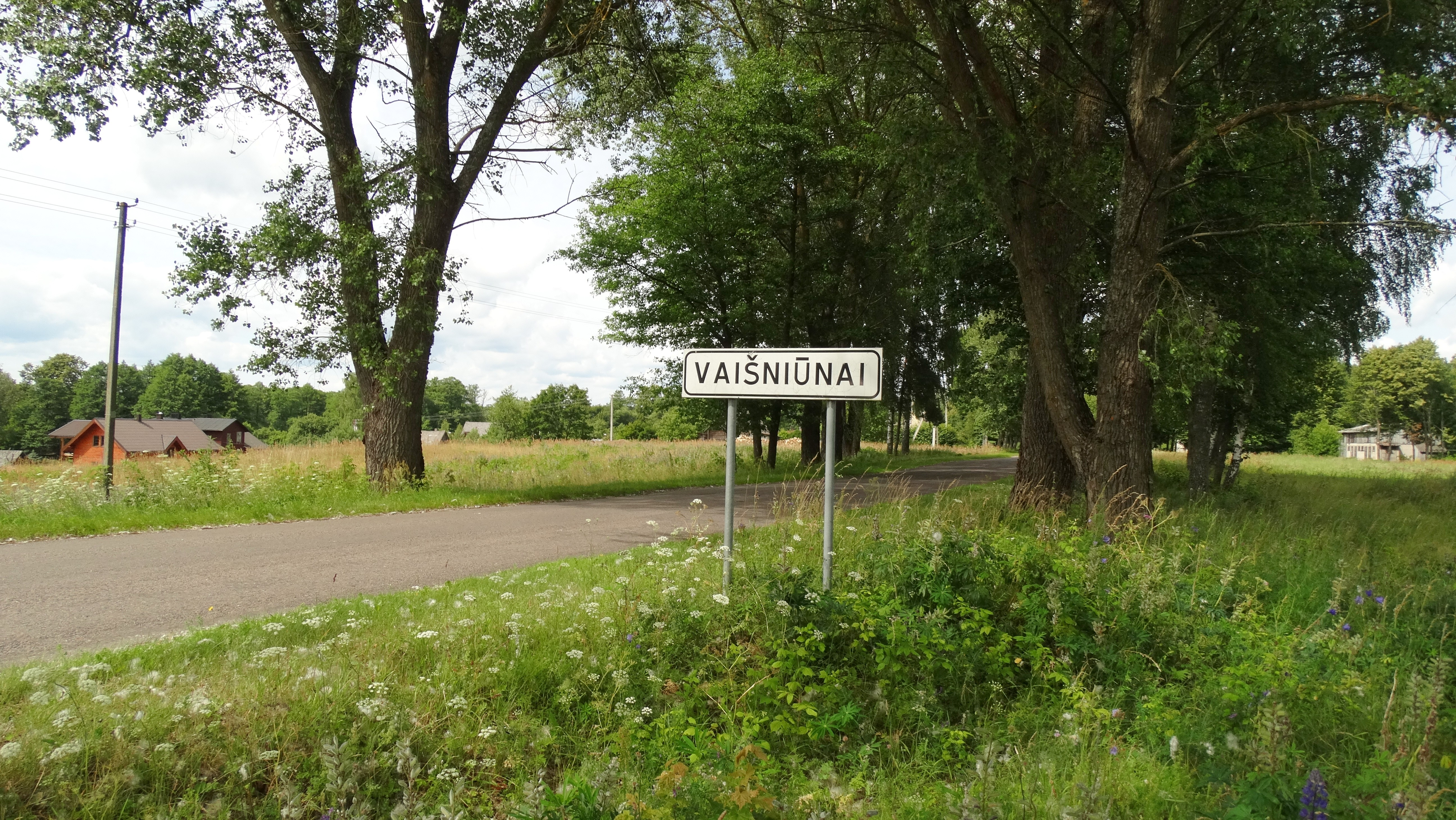 Vaišniūnai, Ignalina District, Lithuania